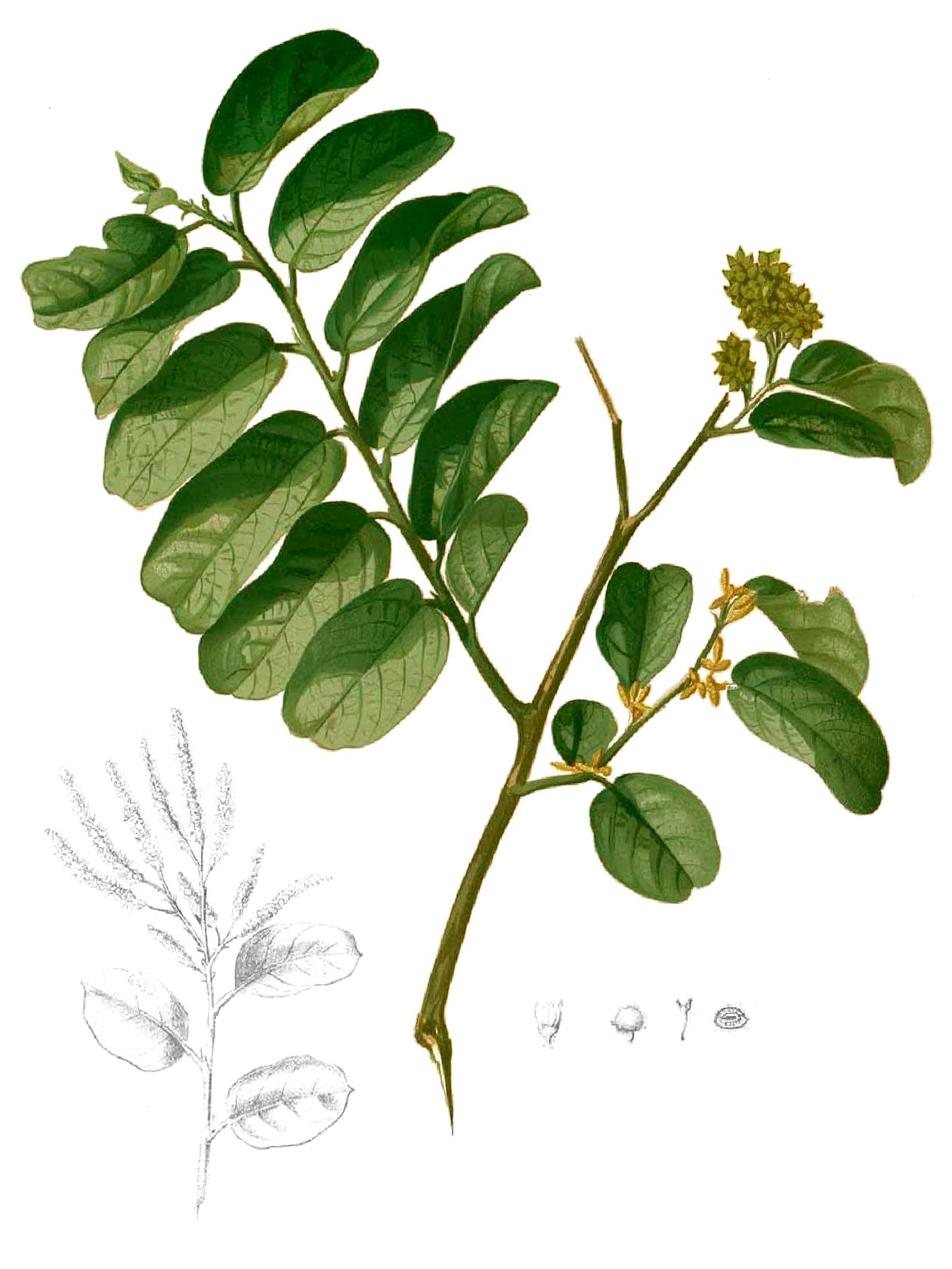 Plate from book